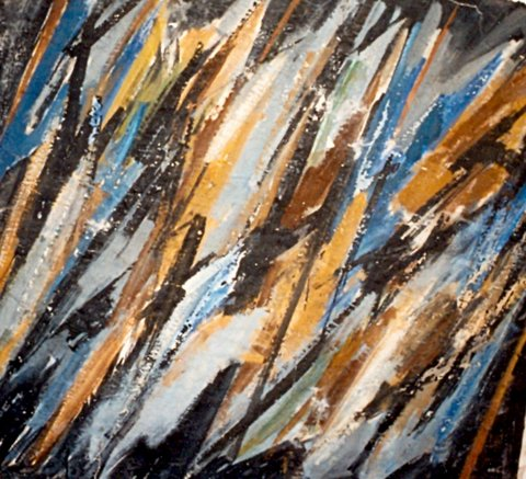 Edmond Boissonnet